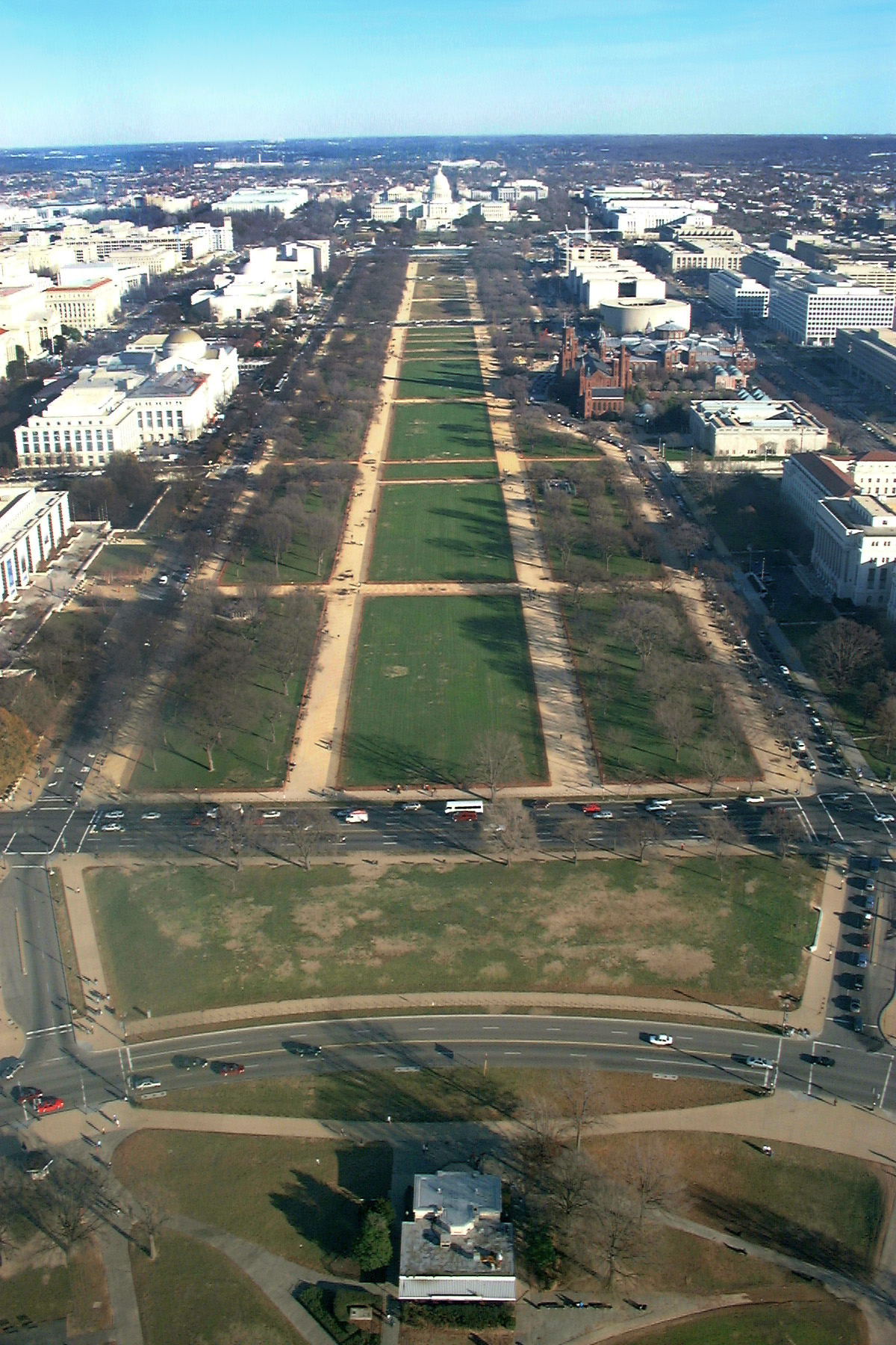 Looking East toward the United States Capitol Building from the Washington Monument.